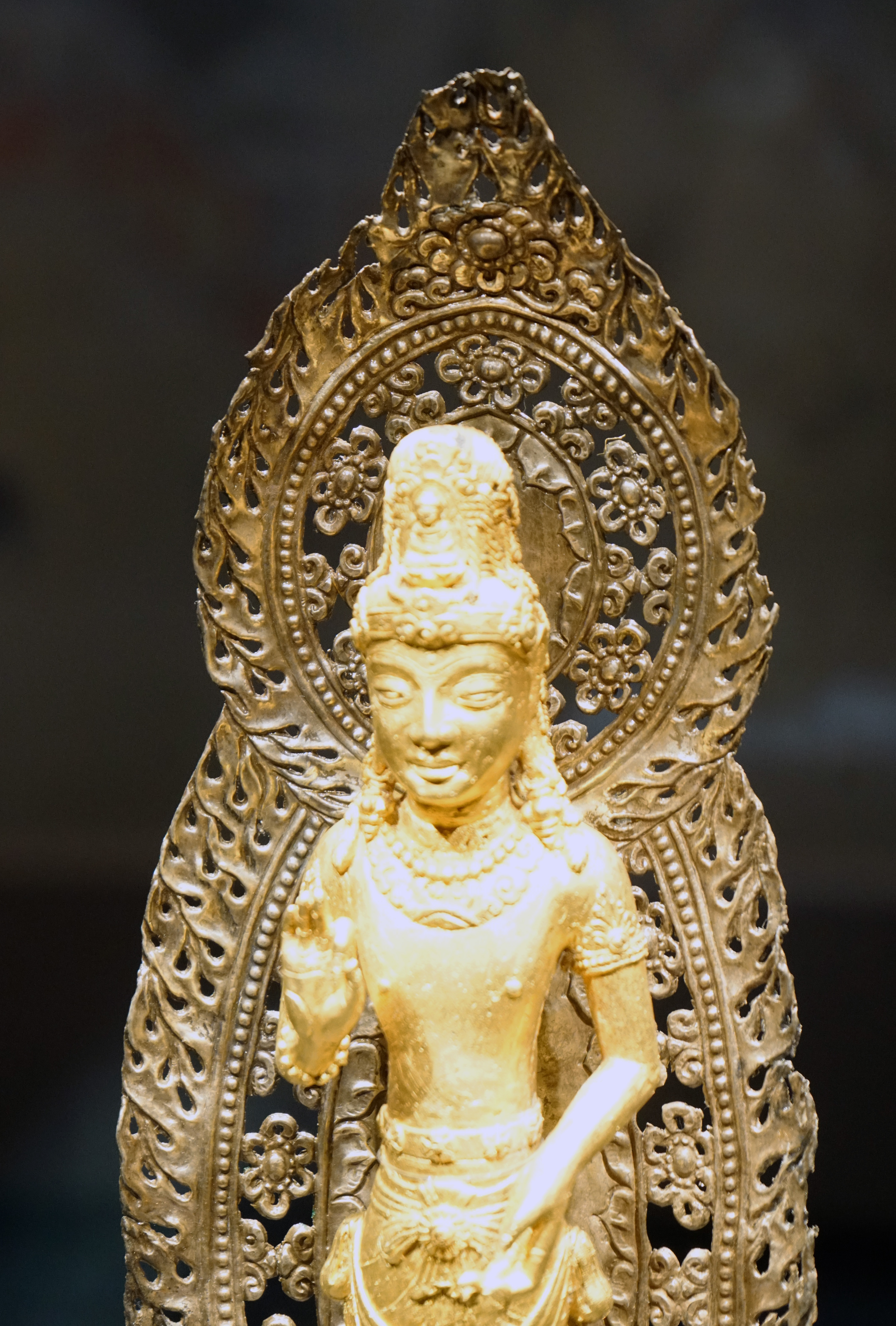 Acuoye Guanyin. Dali.